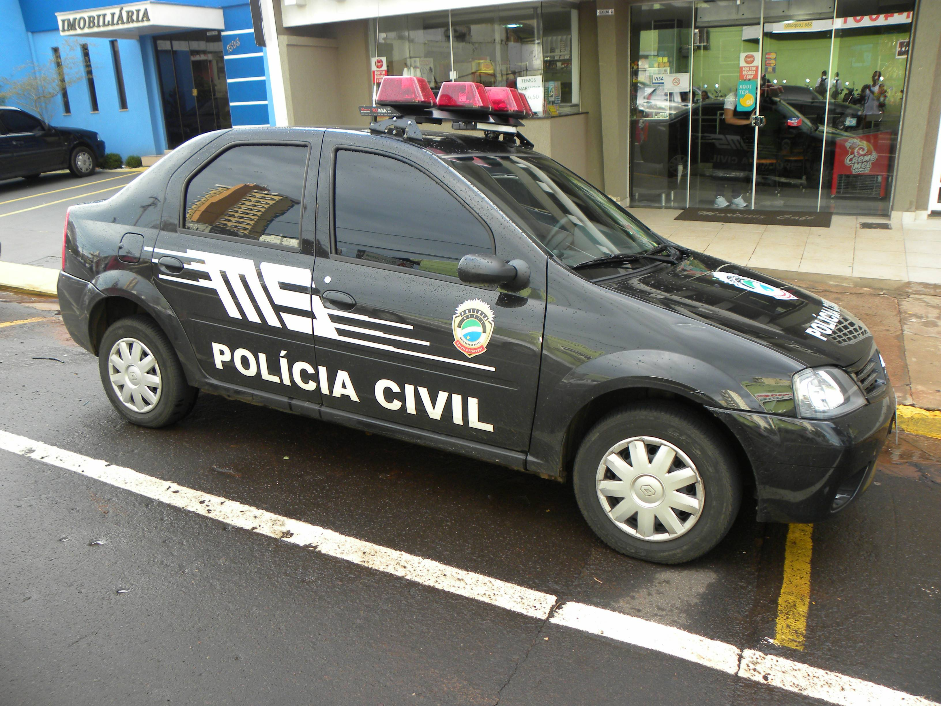 Renault Logan - Mato Grosso do Sul police car